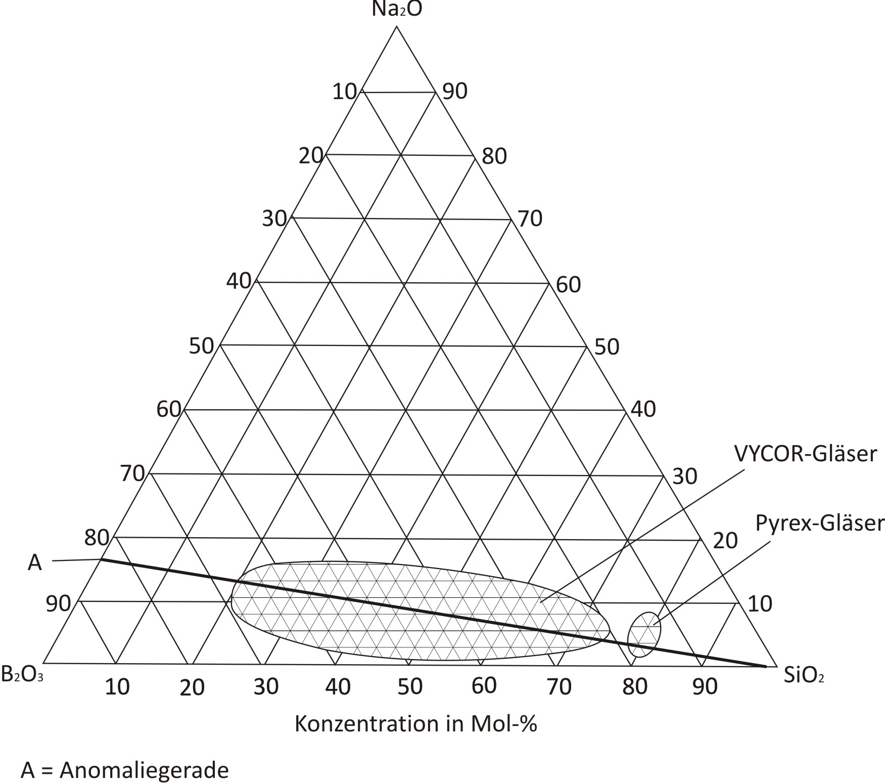 Ternary phase diagramm sodium-boro-silica